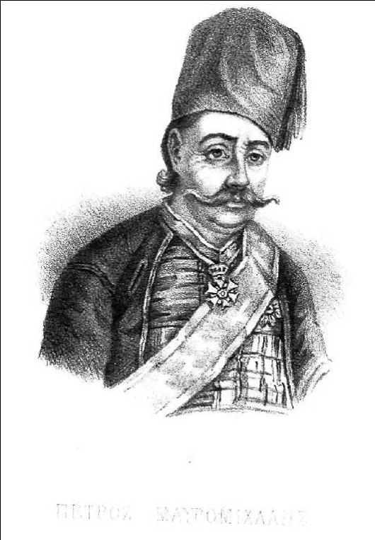 Petros (Petrobey) Mavromichalis, Magazine Ethnikon Imerologion Vrettou (National Diary by Vrettos), Vol 4, Number 1 (1864), Issue 1, Year 4